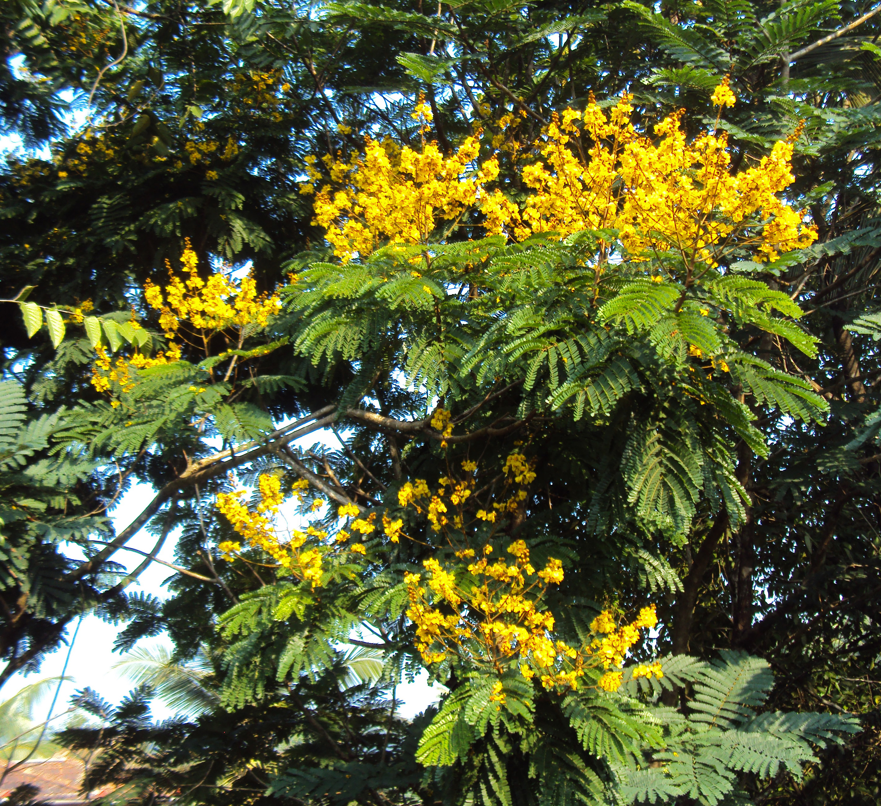 Peltophorum pterocarpum